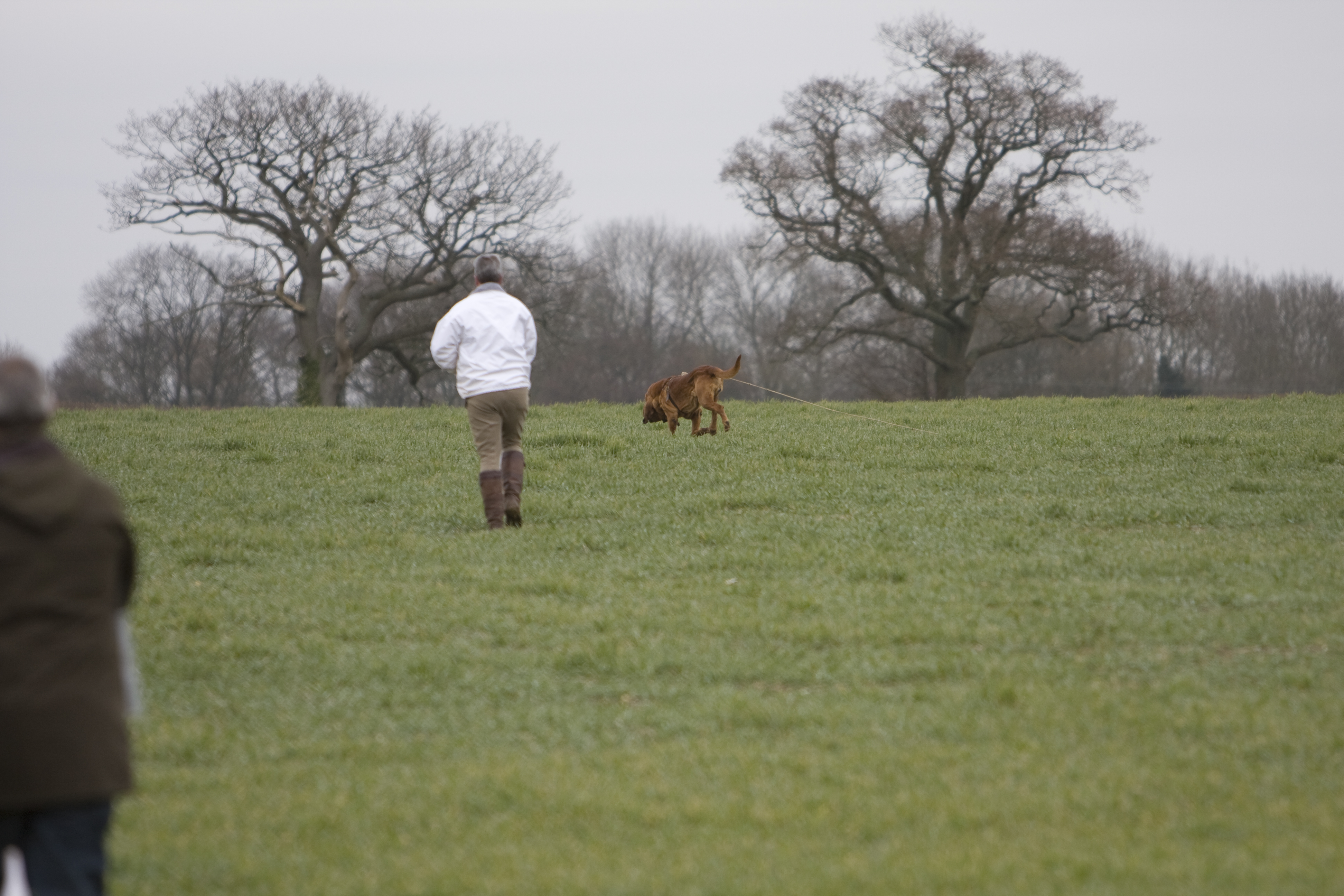 The Bloodhound Club Trials, Senior Stake, Alton, Thursday 28 February 2008